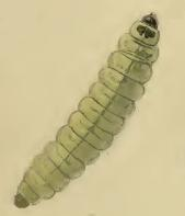 Stainton’s Natural History of the Tineina (1855–1873): Ptocheuusa inopella